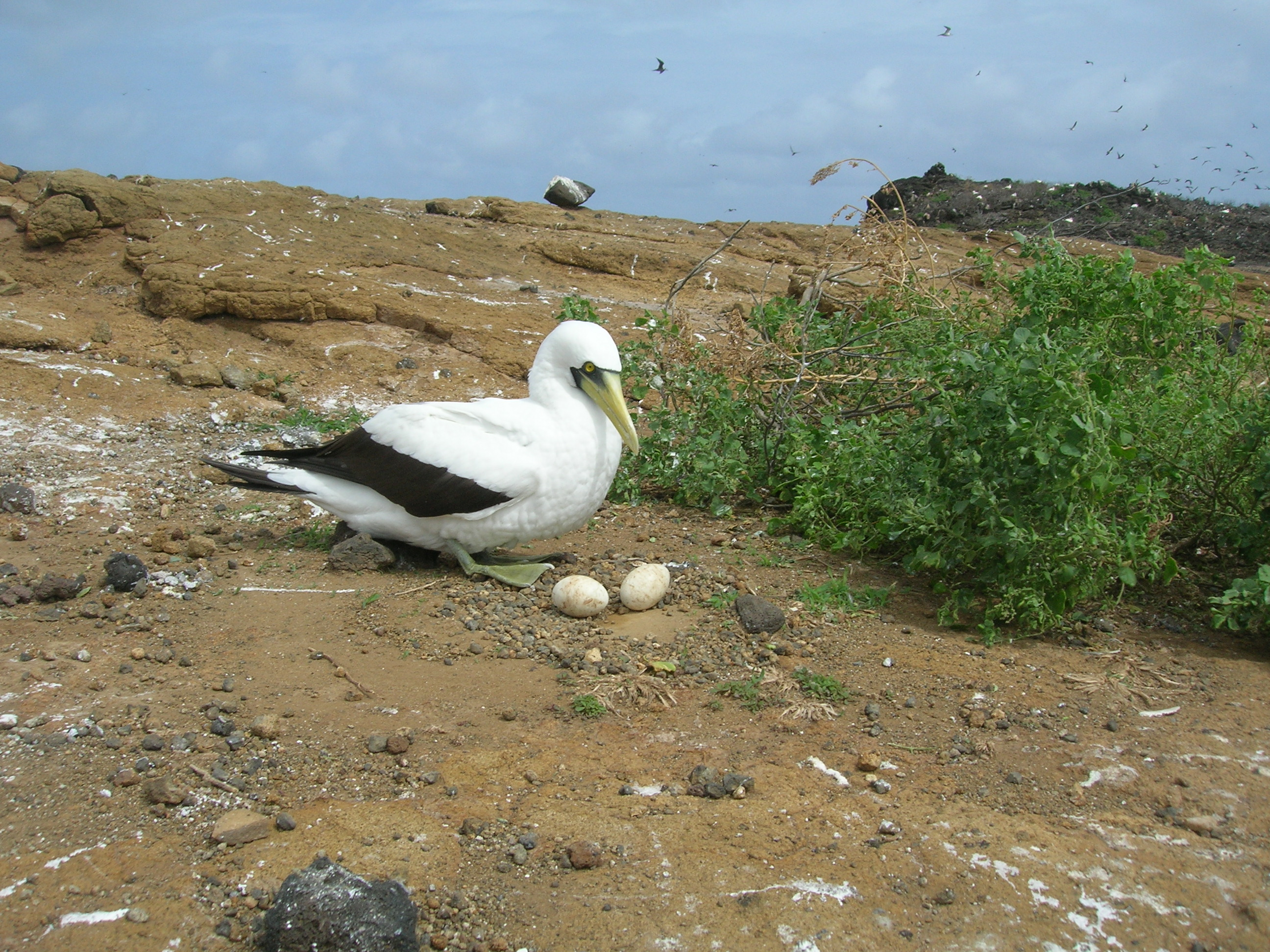 Chenopodium oahuense (habit with masked booby and eggs). Location: Oahu, Moku Manu